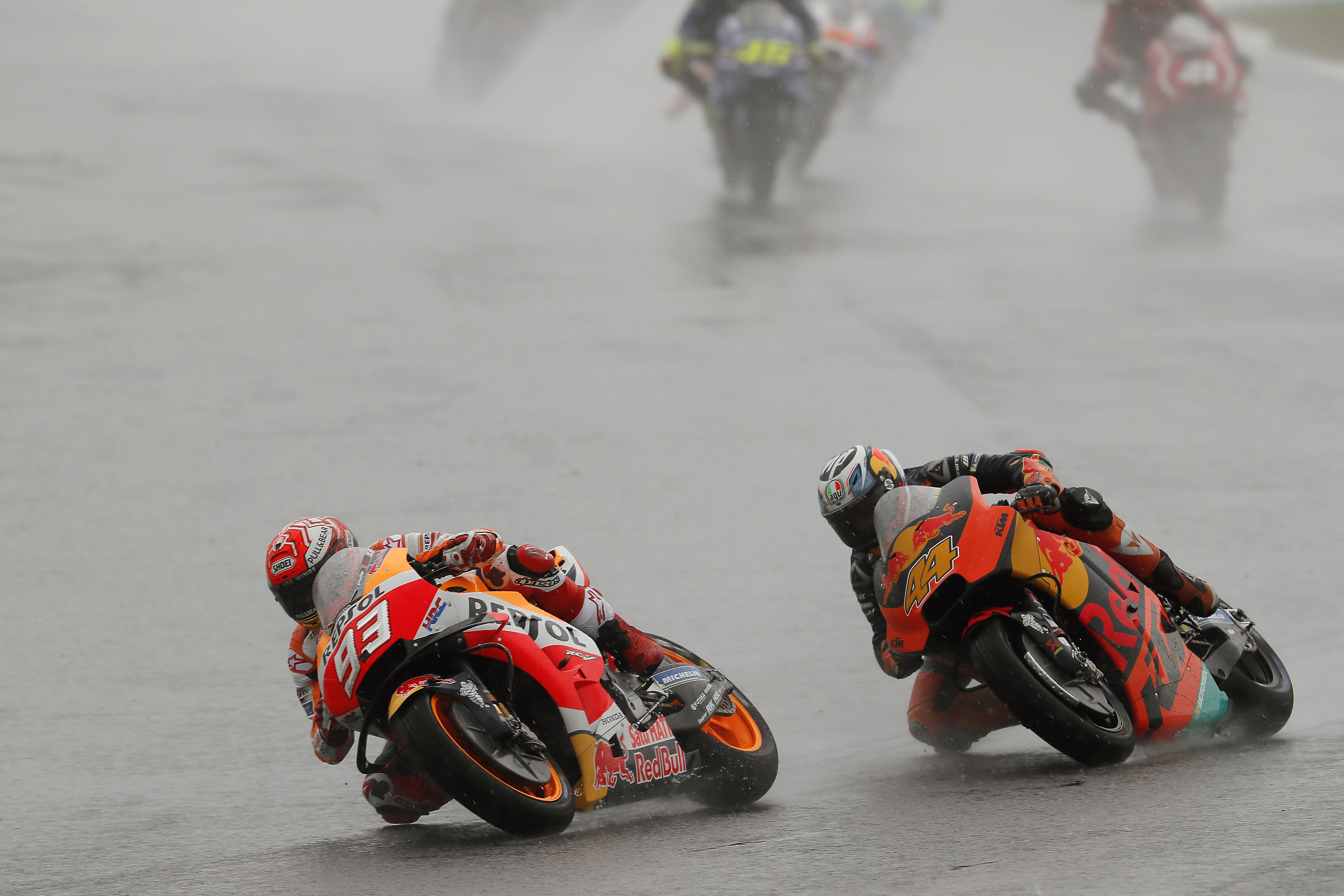 Marc Márquez, riding his Repsol Honda, leading a group of frontrunners at the 2018 Valencian Community Grand Prix.